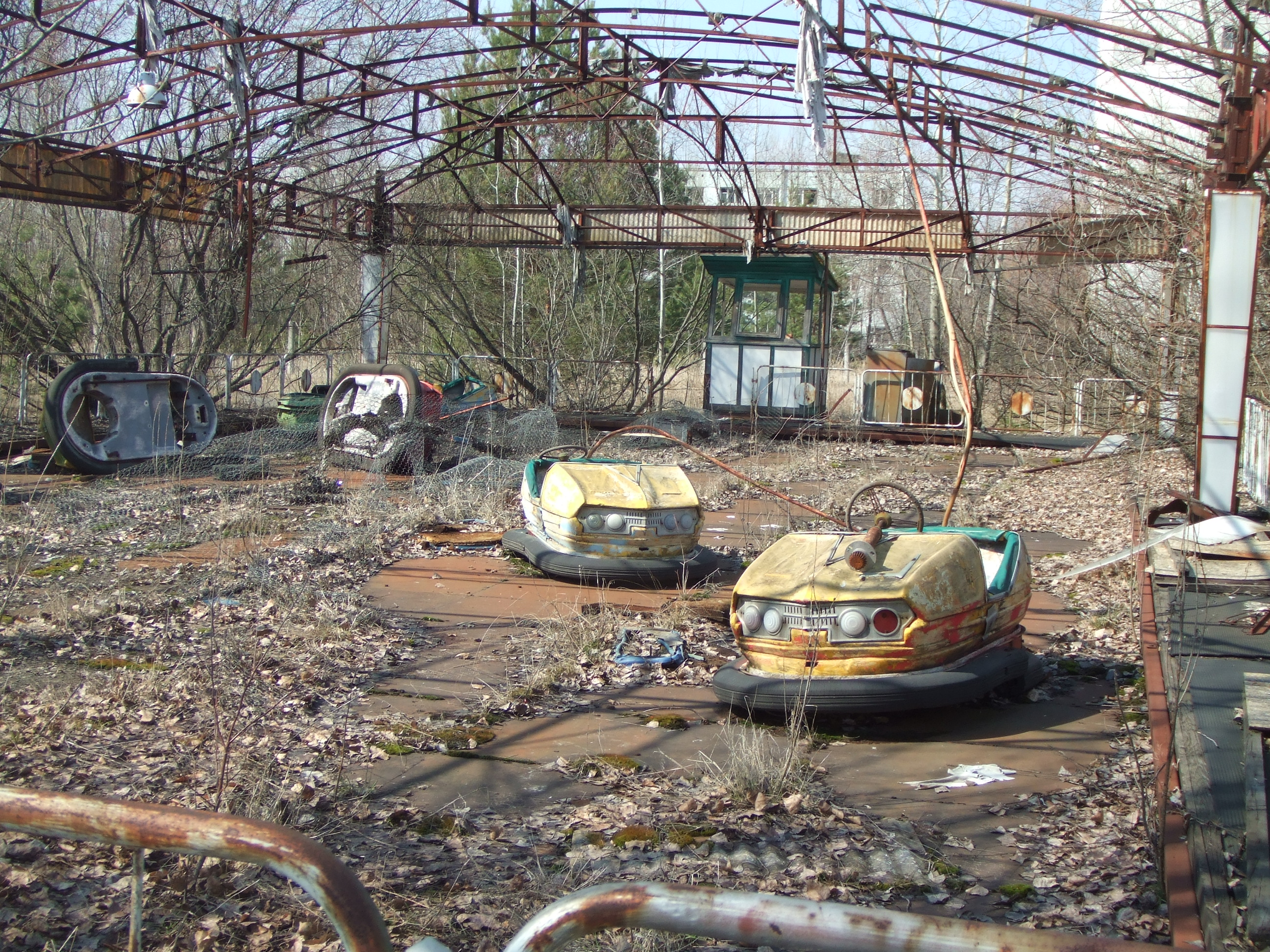 Pripyat - Bumper cars, partially disassembled by looters